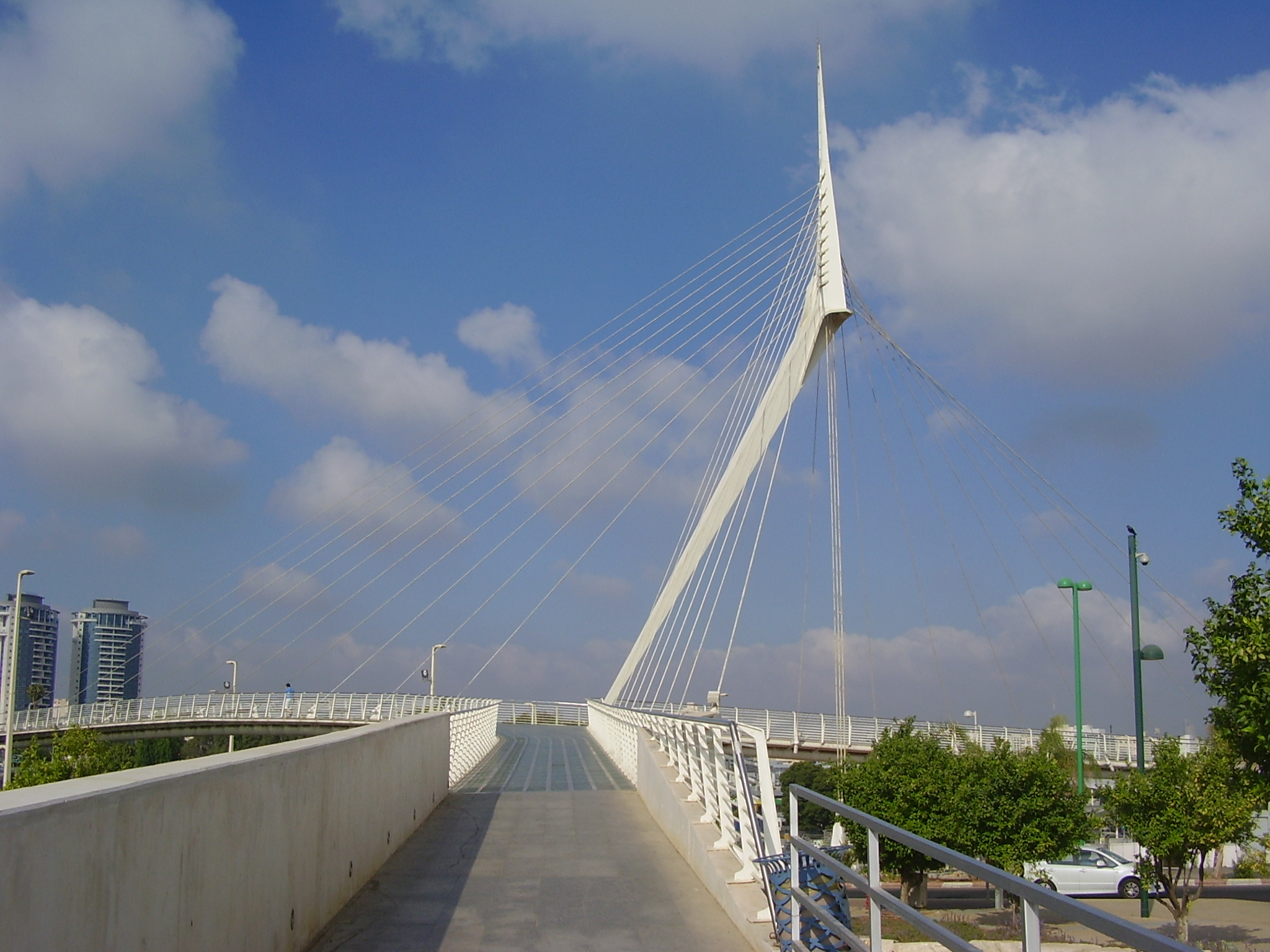 Suspension Bridge in Petah Tikva